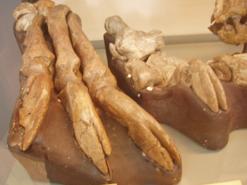 Foot bones of Anisodon grande.